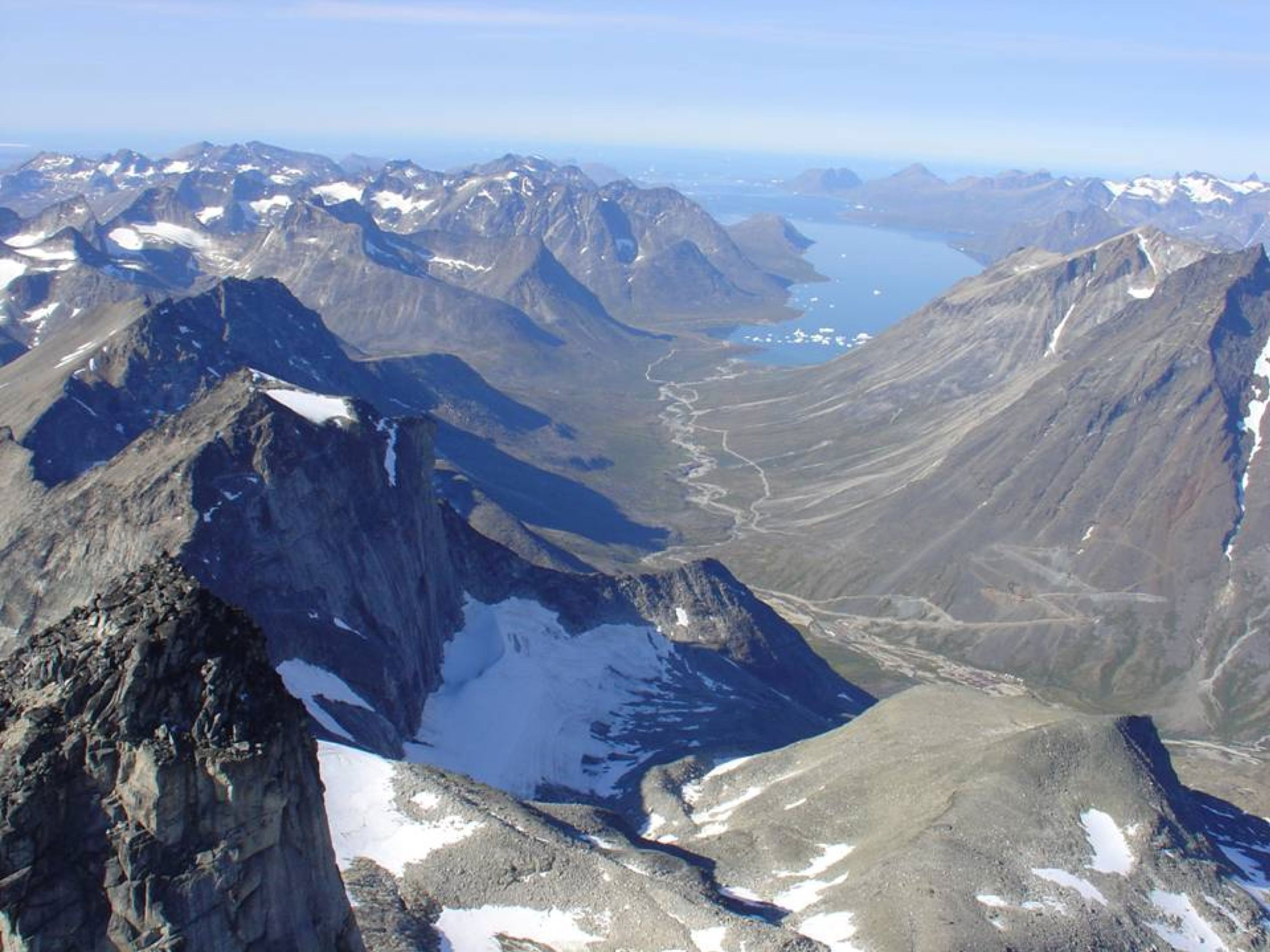 Nalunaq Gold Mine (looking SW) - mine adits are located along the steep slopes of the tall mountain on the right side of the photo (see switchback roads at center-right) (photo generously provided by Nalunaq Gold Mine). The Nalunaq Gold Mine is Greenland’s first gold mine. It's located 33 km northeast of Nanortalik, in the Ketilidian Orogenic Belt of southern Greenland (60º 21’ 29” N, 44º 50’ 11” W). The deposit was discovered in 1992 and mining commenced in 2004. Mining targets the “Main Vein”, a quartz-gold hydrothermal vein emplaced in a 1 to 2 meter wide shear zone (a regional thrust fault). Shear zone hydrothermal quartz-gold occurrences are frequently referred to as “Mother Lode-type gold deposits”, in reference to the Mother Lode of California. Hanging wall rocks at the Nalunaq Mine are Paleoproterozoic amphibolite-facies metadolerites and metavolcanics. Footwall rocks are volcanogenic massive sulfides. Quartz-gold mineralization here has been dated to 1.77 to 1.80 billion years ago (late Paleoproterozoic), during the Ketilidian Orogeny.